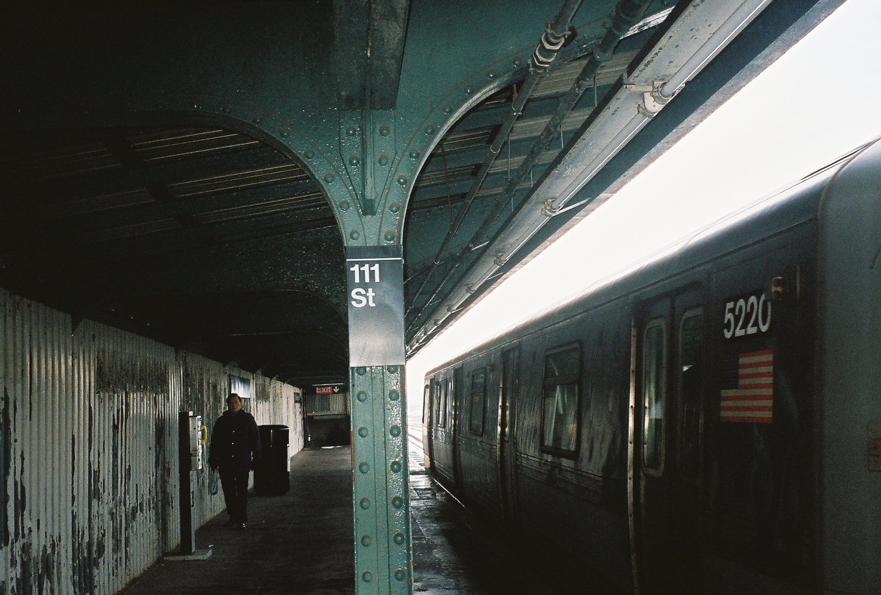 Photo of en:111th Street (IND Fulton Street Line) for Wikipedia:Wikipedia Takes the Subway